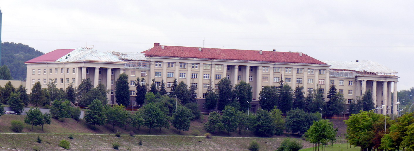 Vilnius Pedagogical University